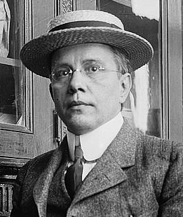 Harry Kendall Thaw circa 1905